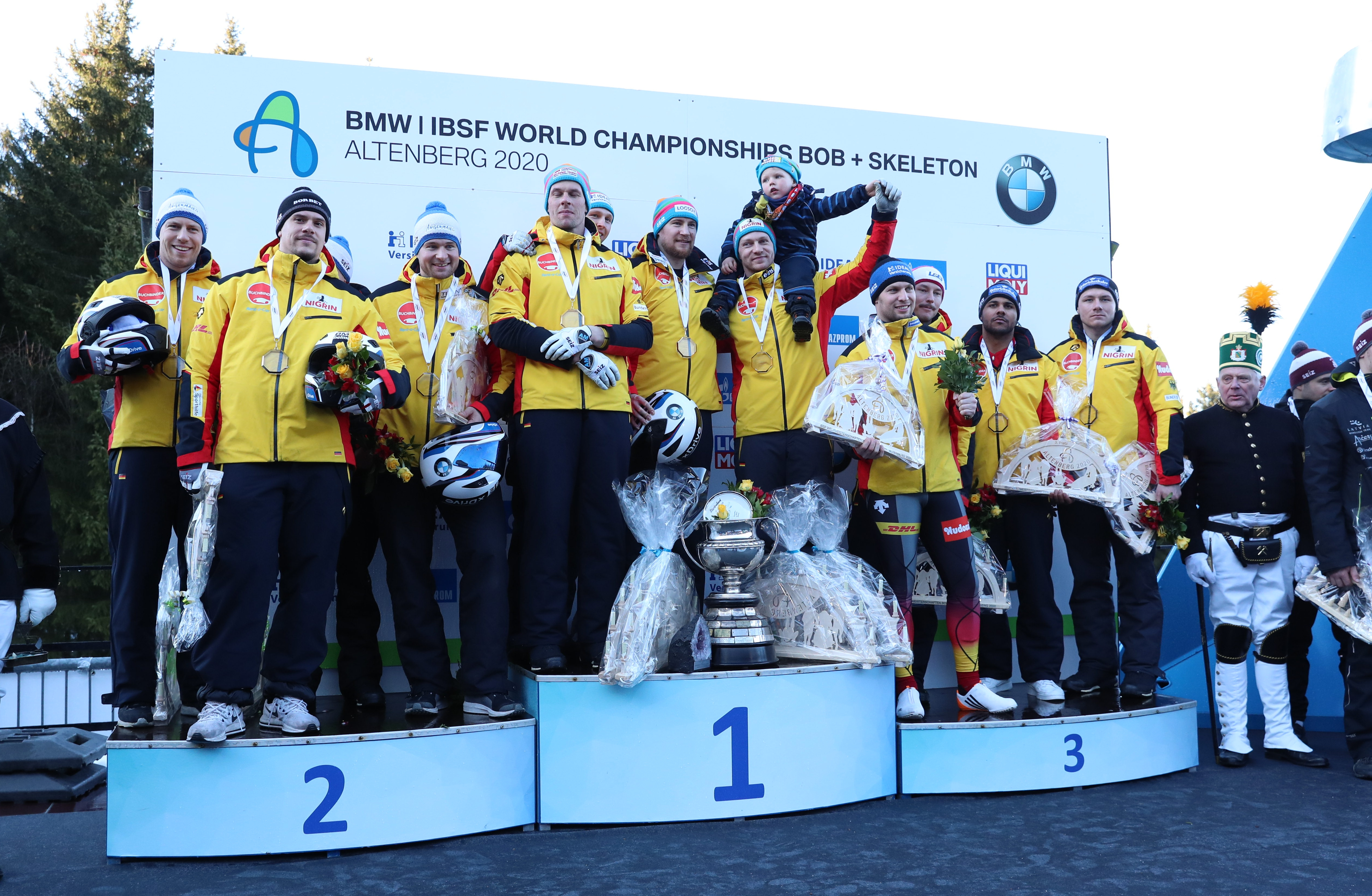 Medal Ceremony 4-man bobsleigh at the Bobsleigh and Skeleton World Championships 2020 in Altenberg